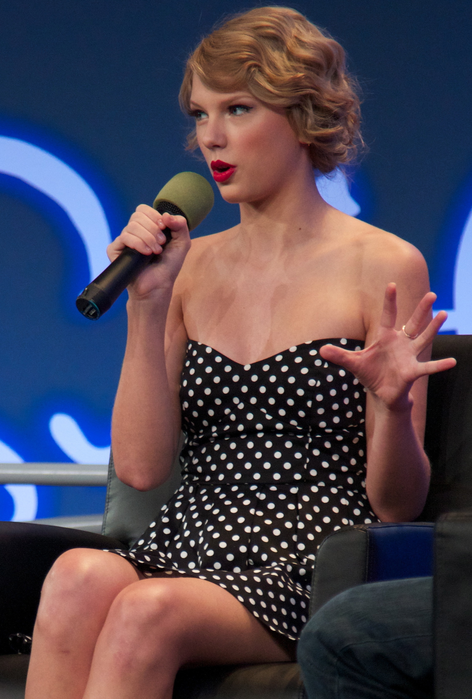 YouTube Presents Taylor Swift